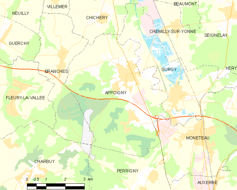 Map of French municipality Appoigny